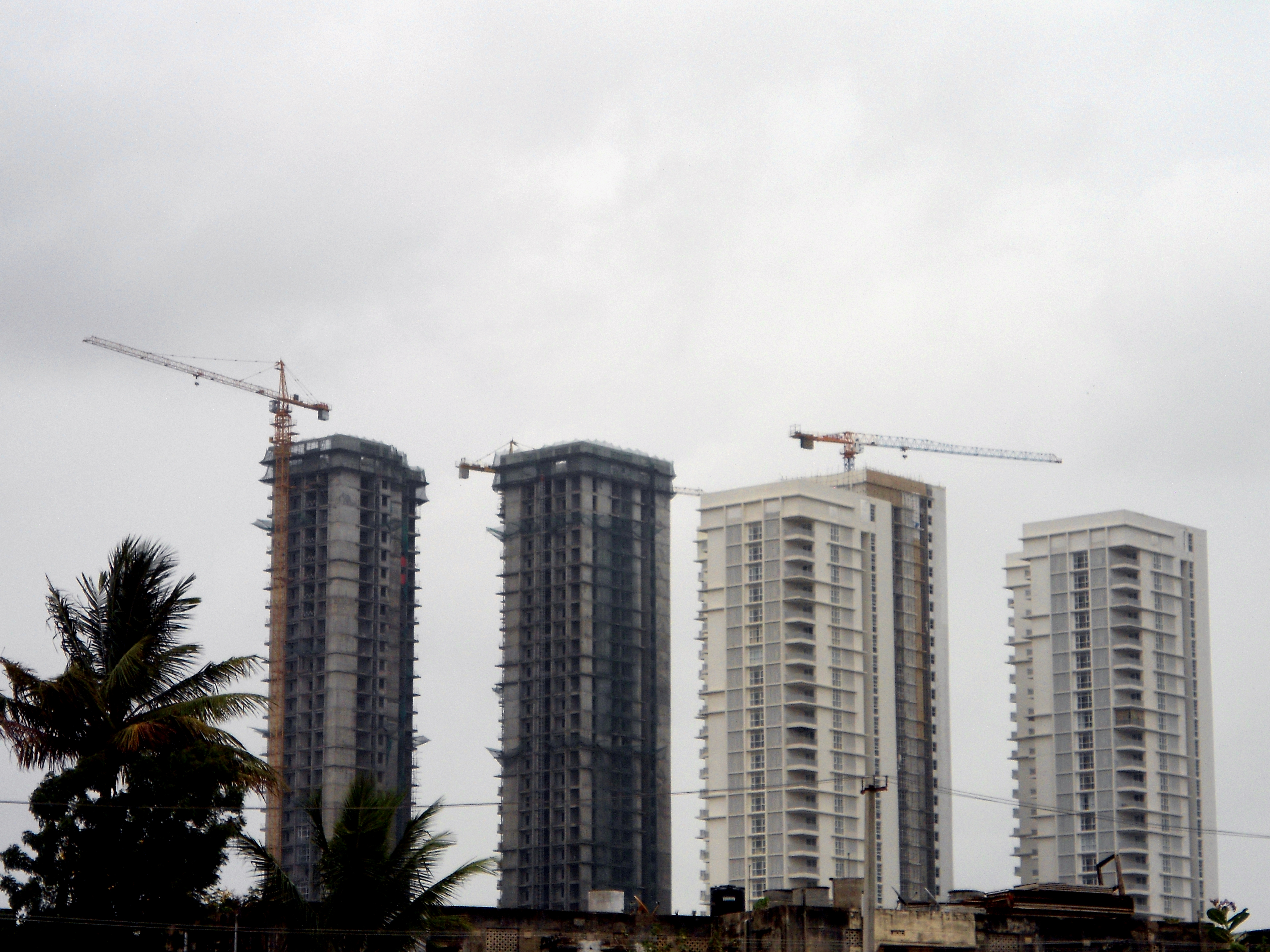 Lodha Belleza High-rise Apartments, Kukatpally, Hyderabad